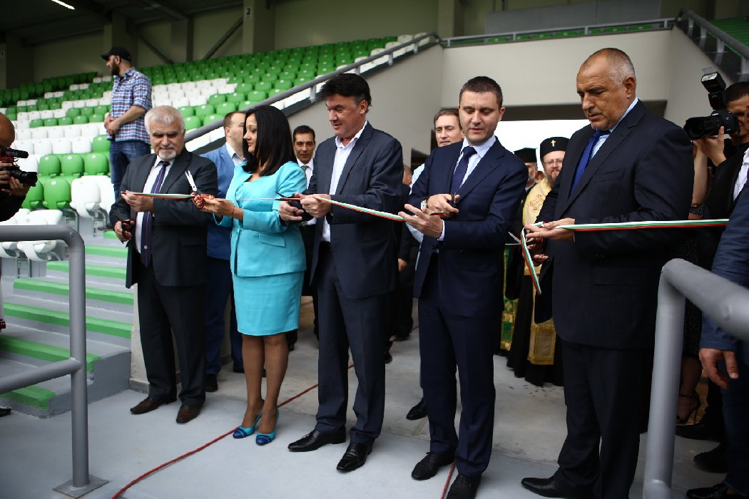 Opening of the Mocci tribune at the Ludogorets arena stadium in Razgrad, Bulgaria